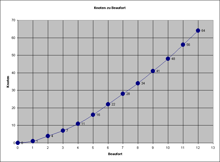 Chart Beaufort to Knots relation